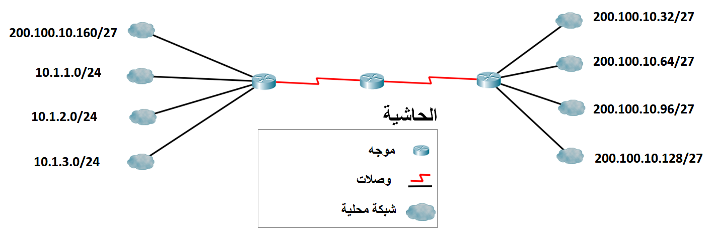 An example of a case where route aggregation cannot be used optimally, the position of the network addressed using the space (200.100.10.160/27) prevent the ability to summarize all the routs destined into subnets of the classful space (200.100.10.0/24). An attempt to aggregate all of the previous subnets will lead to an inconvenient route aggregation.